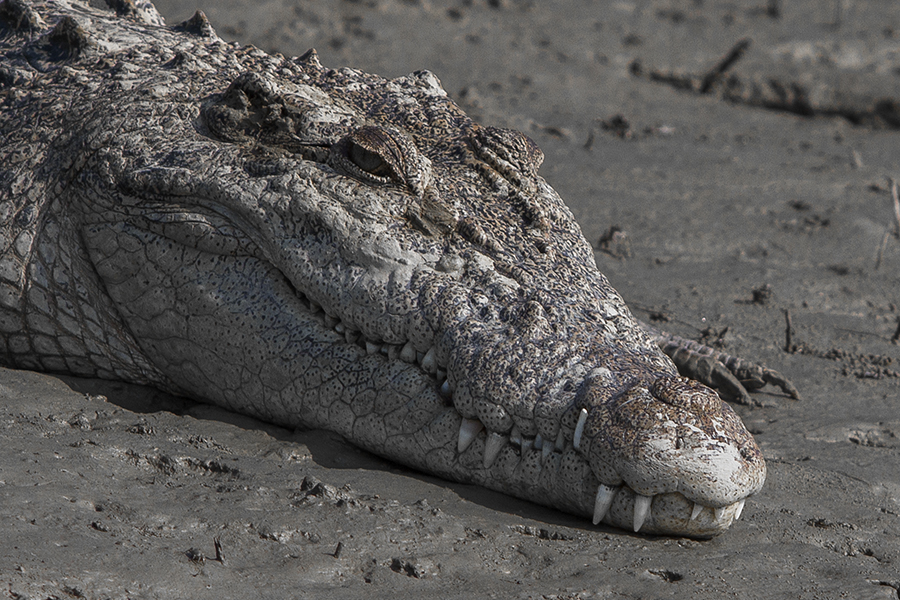 The specie Saltwater Crocodile had been photographed from Sundarbans, West Bengal, India on 16.12.2014.